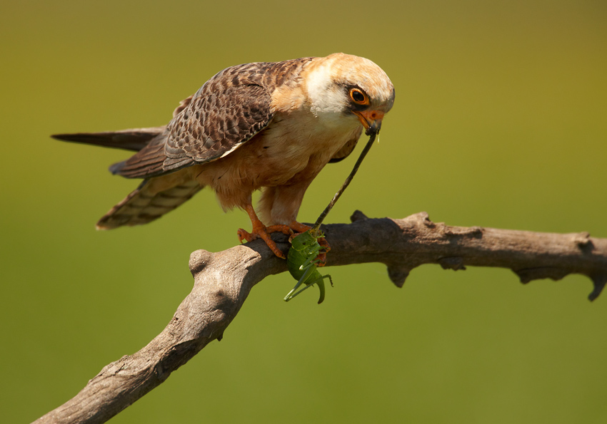 Falco vespertinus - female; Hungary